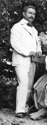 Max Herz. Detail of a family photograph. August 1897, Stresa, Piedmont, Italy.